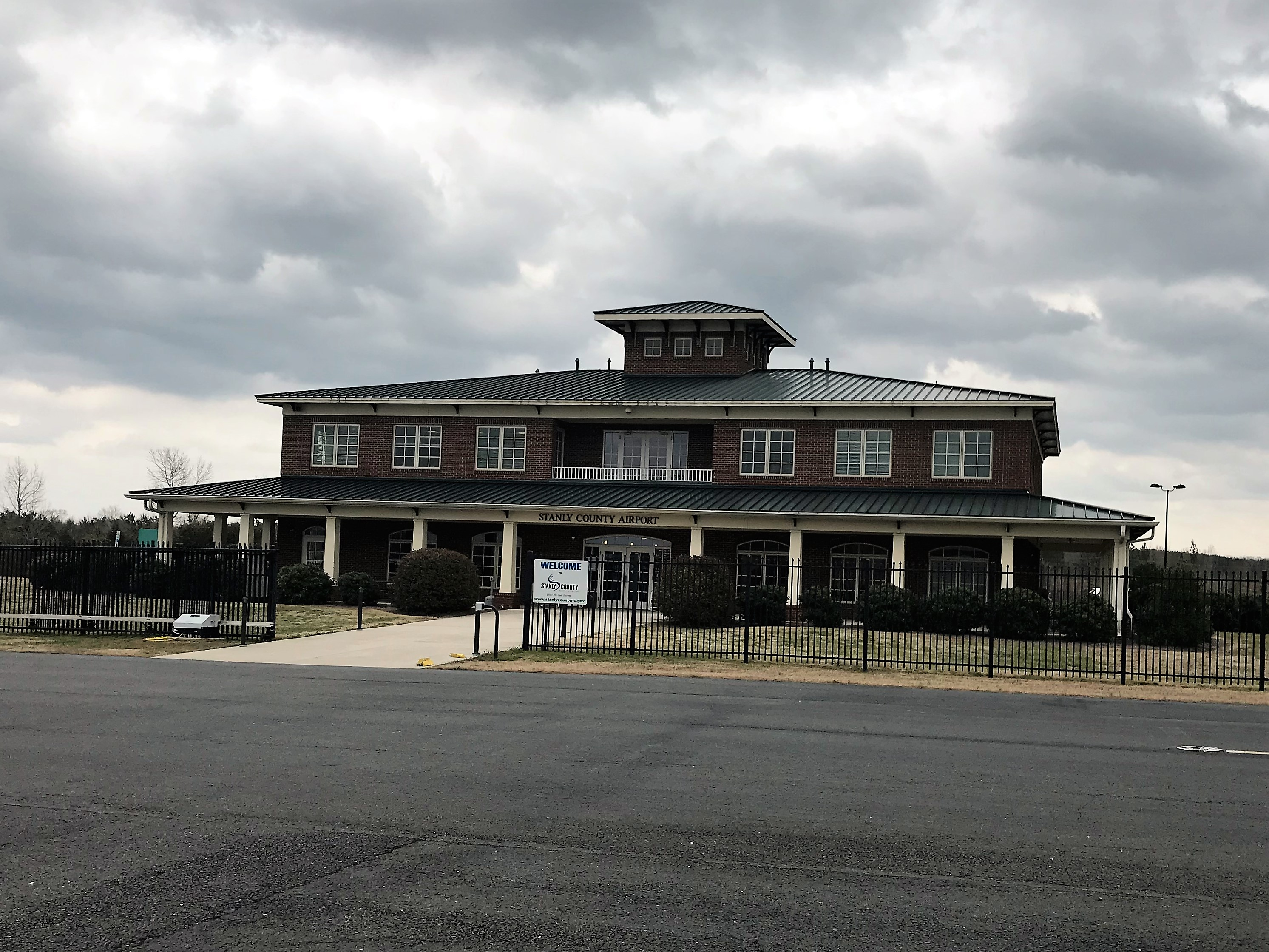 Stanly County Airport rear of the building taken from the tarmac